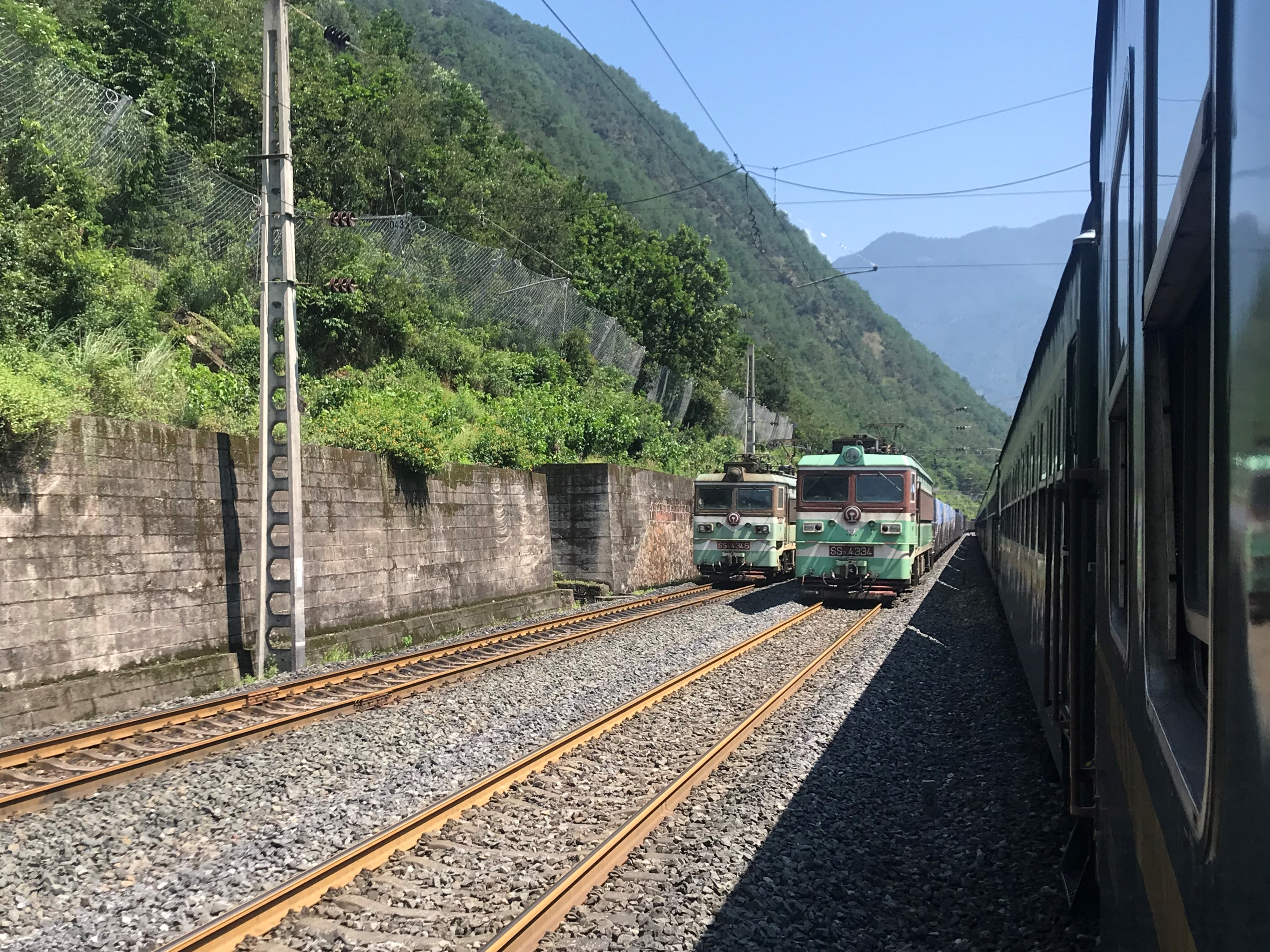 201908 SS3-4334 and SS3-4346 at Leyao Station